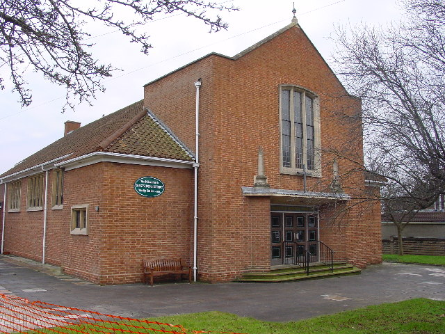 Horfield United Reformed Church, Muller Road, Bristol, seen from the northwest. The original church is to the left of this photograph and is now the church hall. It was built in 1933 as Muller Road Congregational Church. The present church was built in 1957. The sign above the door says Whitefield Memorial Tabernacle.